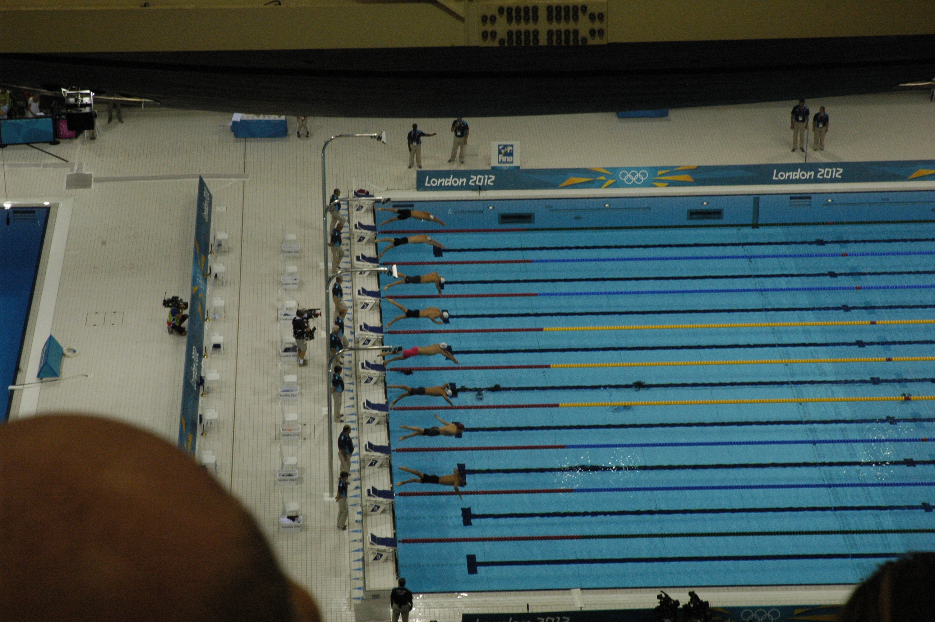 Swimming at the 2012 Summer Olympics, Men's 100m Butterfly heat 6 (2)